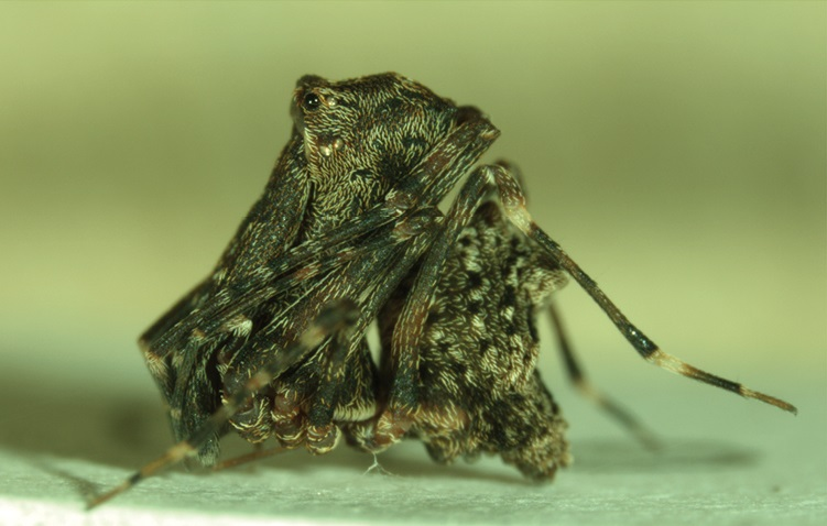 Austrarchaea griswoldi from Eungella National Park: female, lateral view